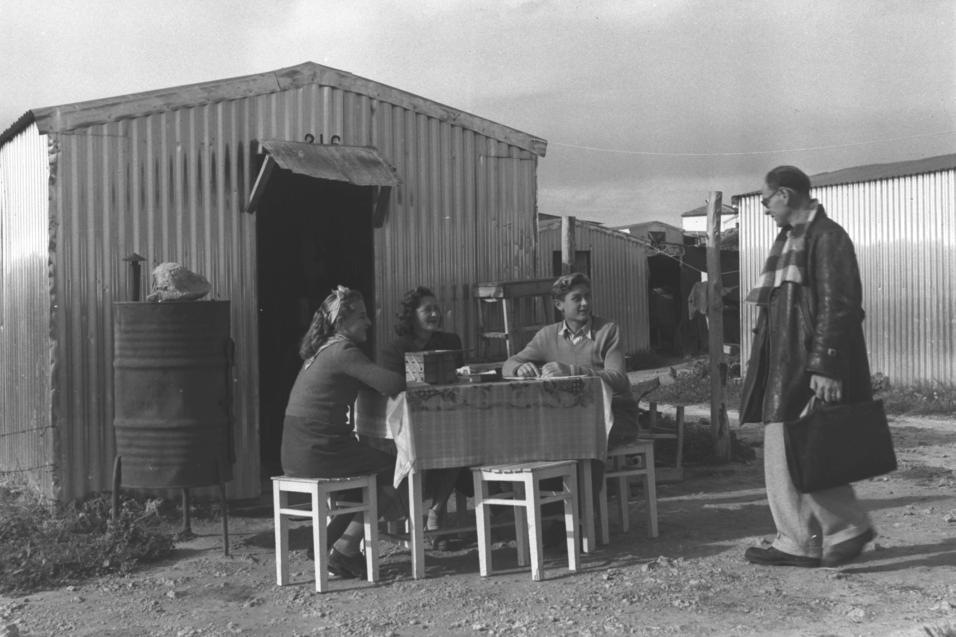 Original Description: DAVID TISHLER RETURNING HOME. IN FRONT OF HUT ARE HIS WIFE ROSA, 37-YRS., AND HIS CHILDREN, MENDEL, 15-YRS., AND SARA, 13-YRS. BOTH ATTEND SCHOOL AT NAHARIYA; IMMIGRANTS